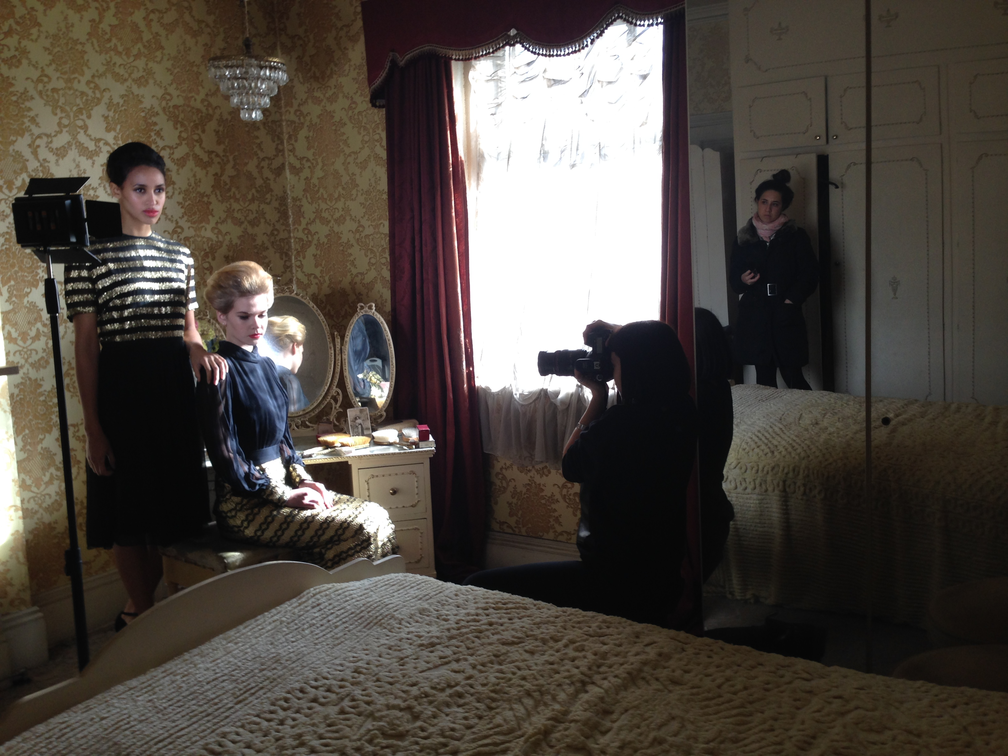 Behind the scenes with Tania Olive (Photographer) and Carlotta Nuti (Make-Up Artist)